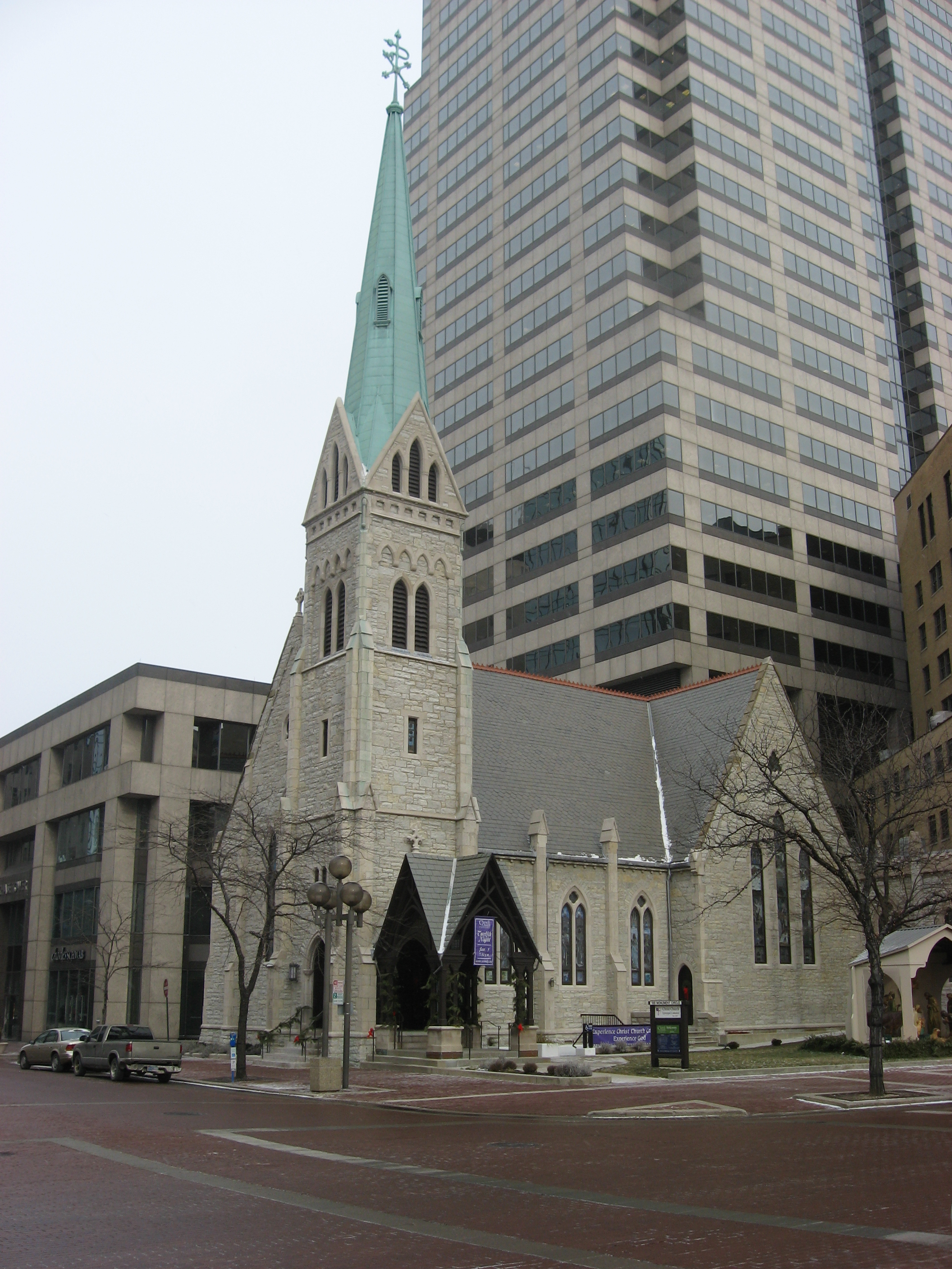 Exterior of Christ Church Cathedral, located at 131 Monument Circle in Indianapolis, Indiana, United States. Built in 1857, it is listed on the National Register of Historic Places, and it is a contributing property to the Register-listed Washington Street-Monument Circle Historic District.